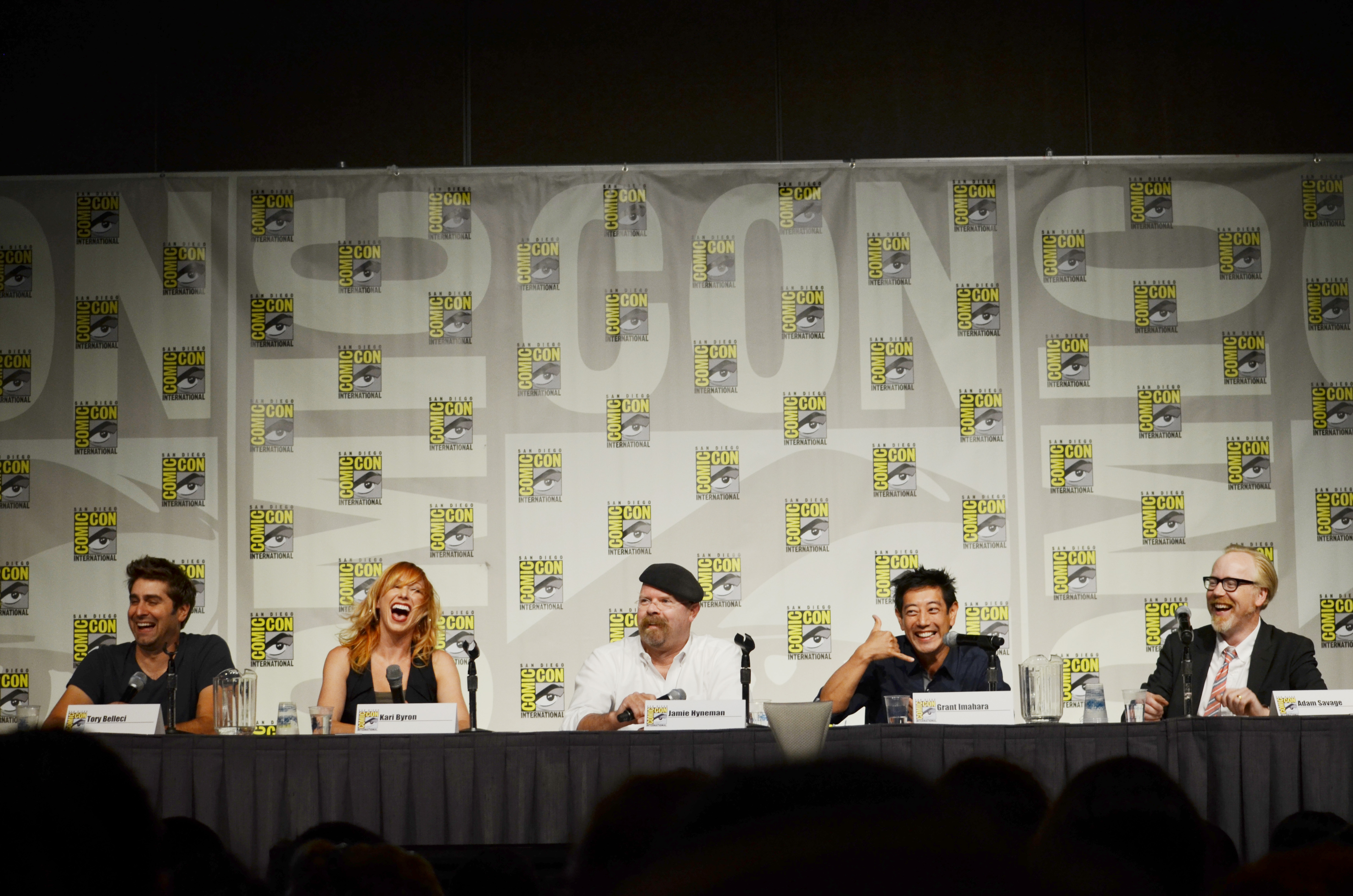 Mythbusters